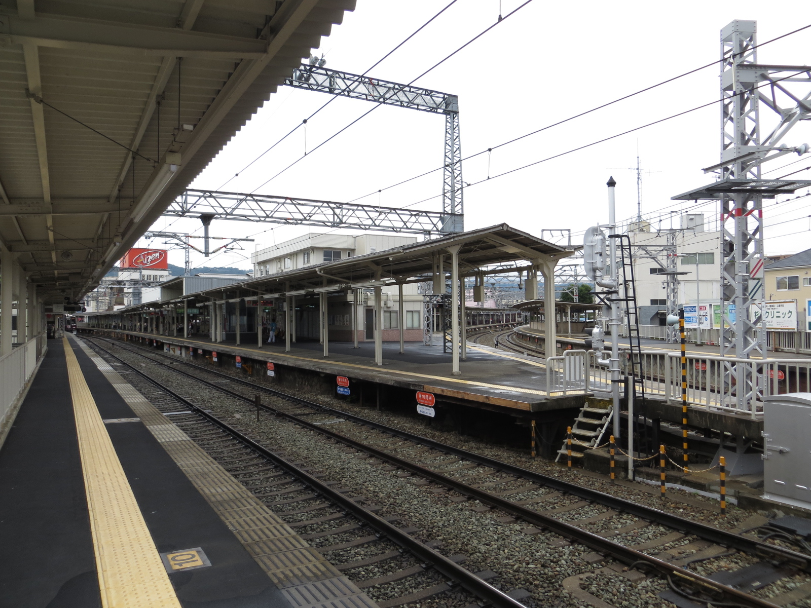 Platform in Hankyu Takarazuka Main Line, Ishibashi Station.